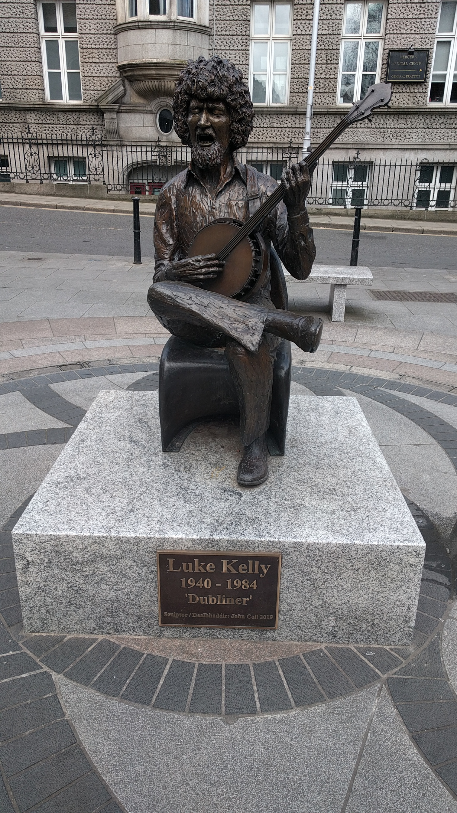 Sculpture of the singer Luke Kelly, in South King Street, Dublin. John Coll 2019.